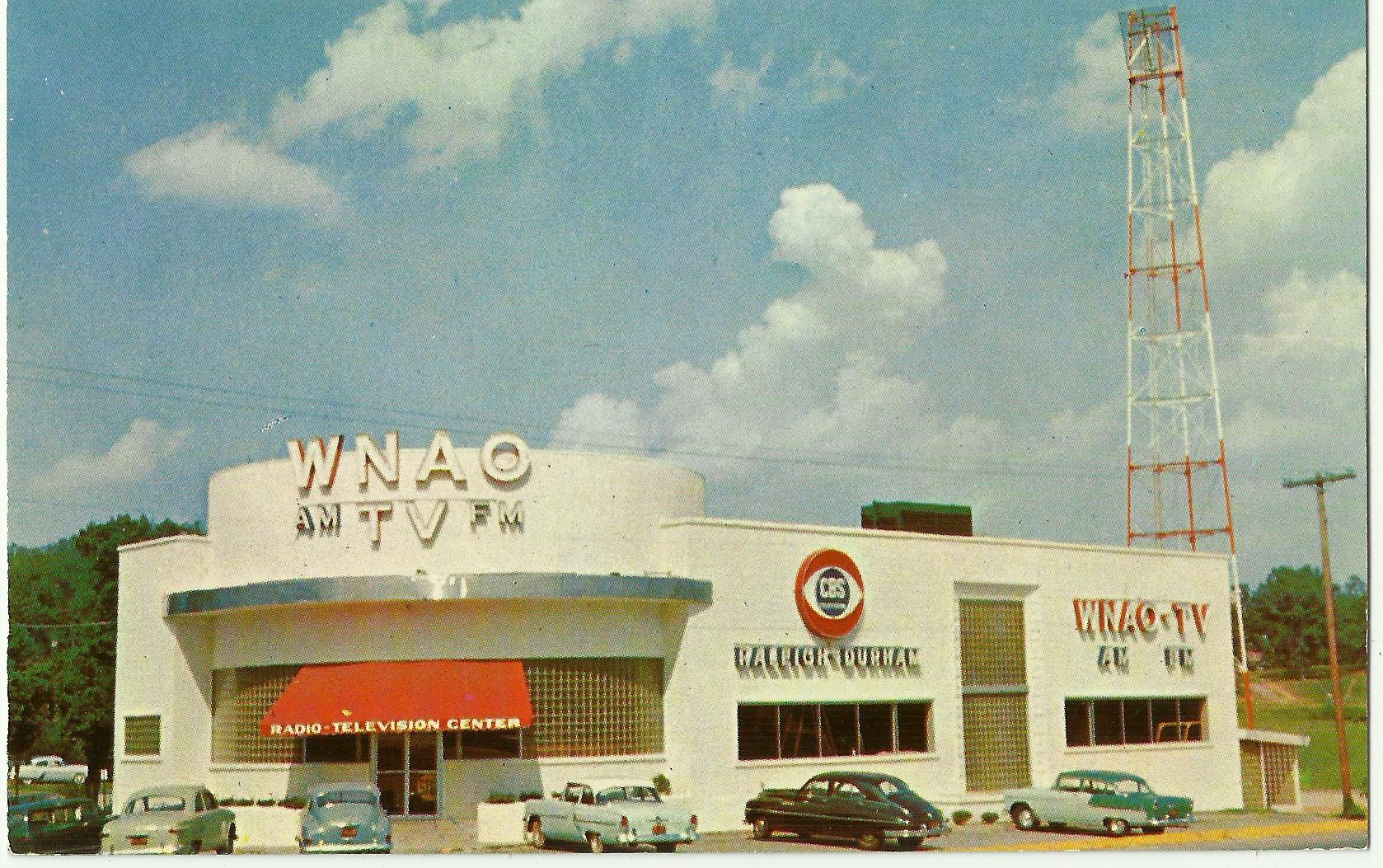 This building had been the Club Bon Air, a swanky restaurant and night spot 1946-1951, then the Club Carlyle 1951-1952, before it came to house WNAO beginning in 1953. More history of this building can be found here Postcard from addition to the Massengill Collection, PhC.184, State Archives of North Carolina, Raleigh, NC